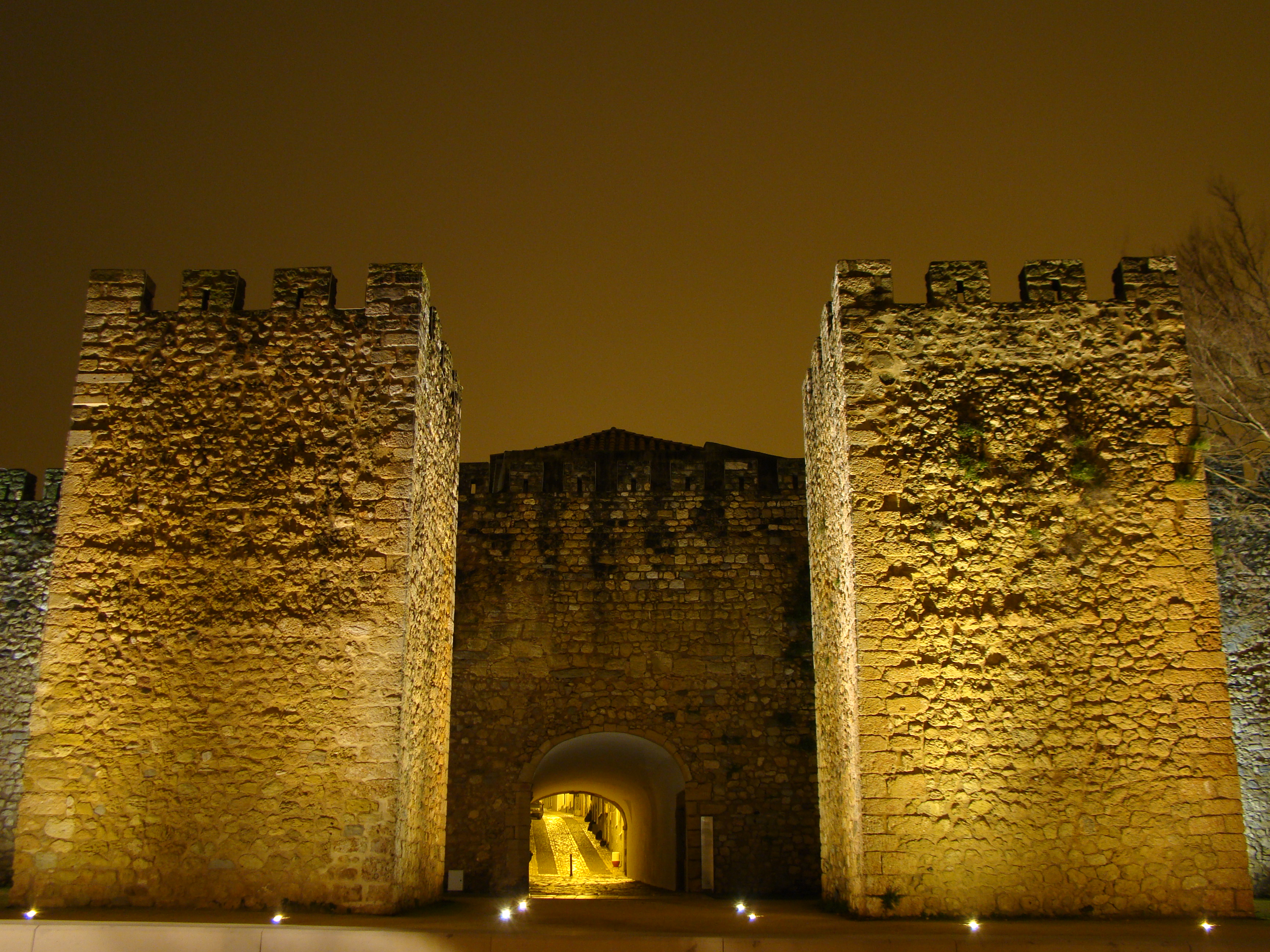 The twin barbican towers which project from the city walls at St. Gonçalo's gate, Lagos Castle (Castelo de Lagos) within the city of Lagos, Algarve, Portugal.